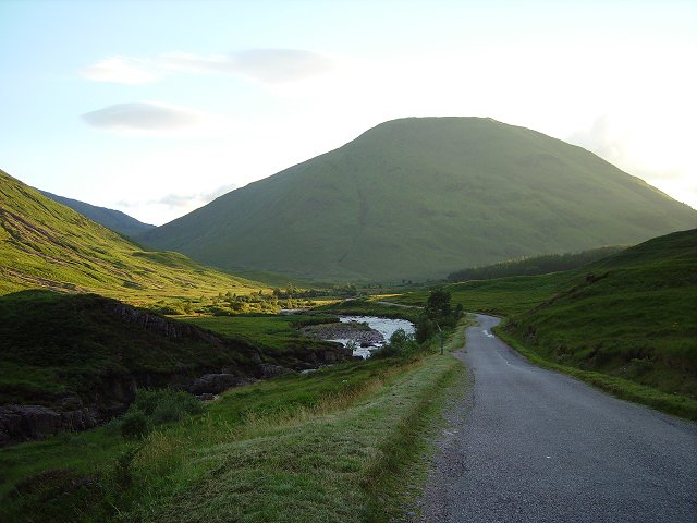 Old Road, Glen Coe. The old road heading west towards Meall Mòr.